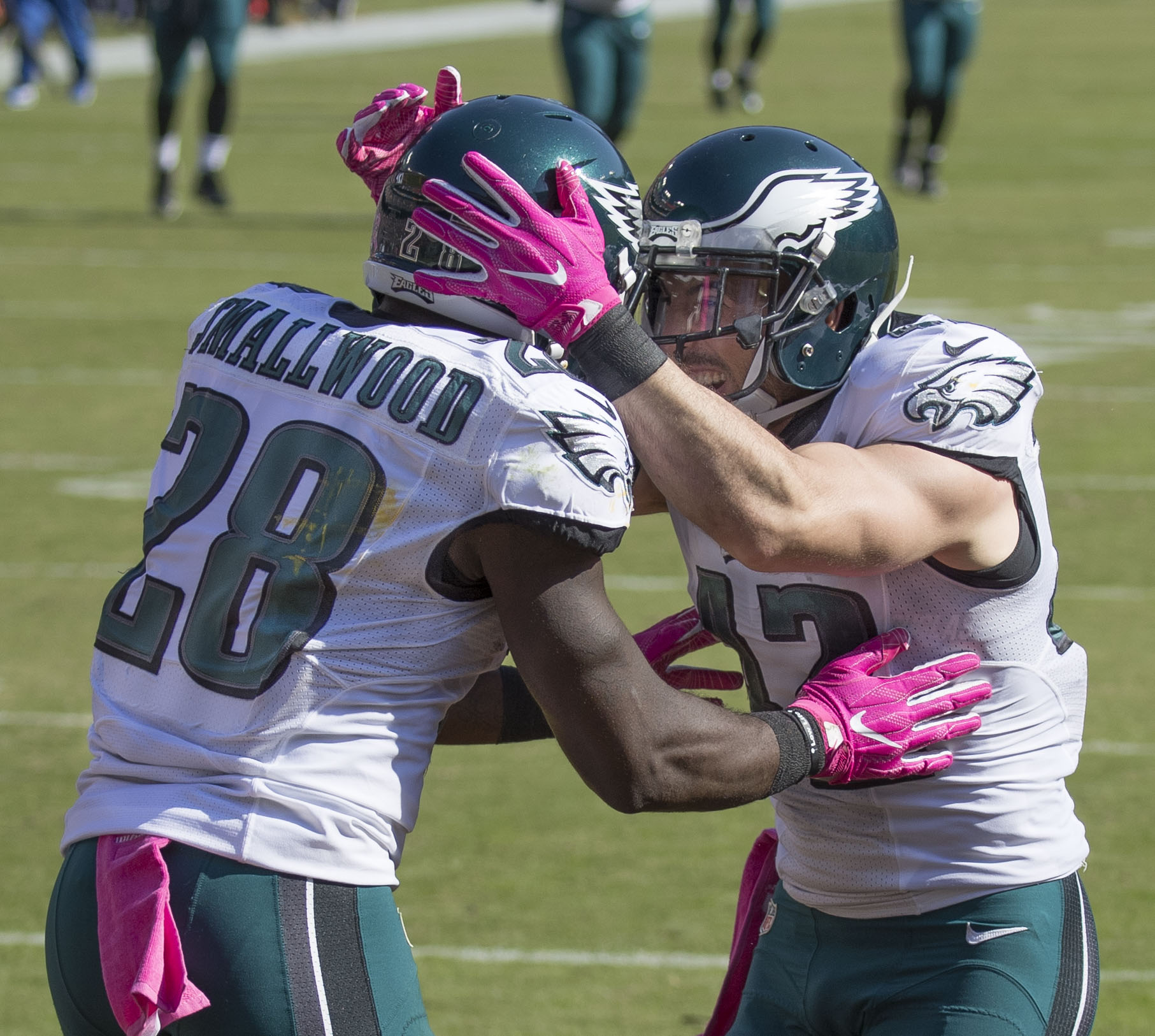 Eagles Running Back Wendell Smallwood celebrates a touchdown with a teammate